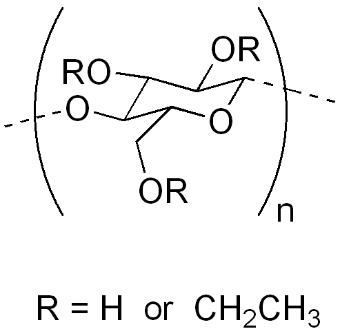 chemical structure of ethyl cellulose